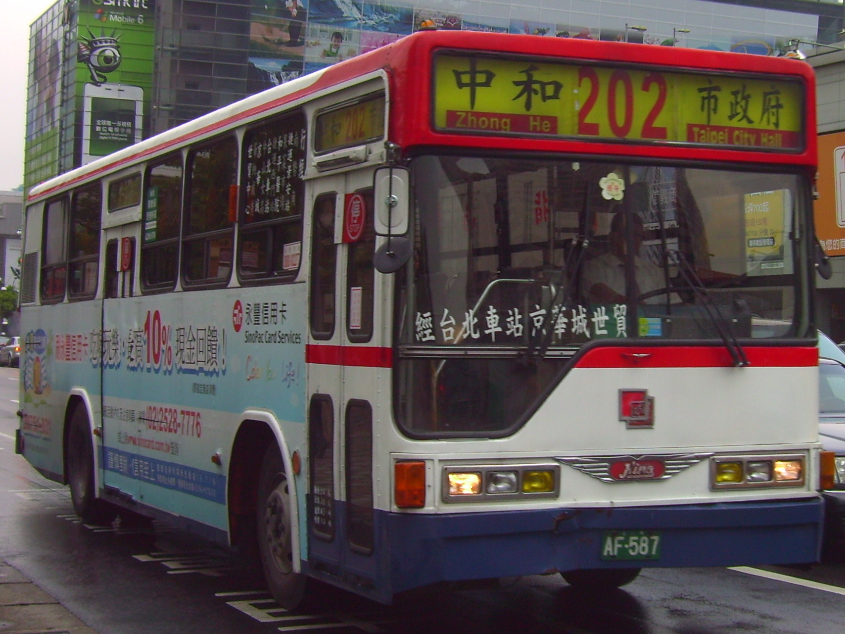 An oldest LRK bus is operated by Chih-nan Bus Co., Ltd. and will be eliminated quickly.